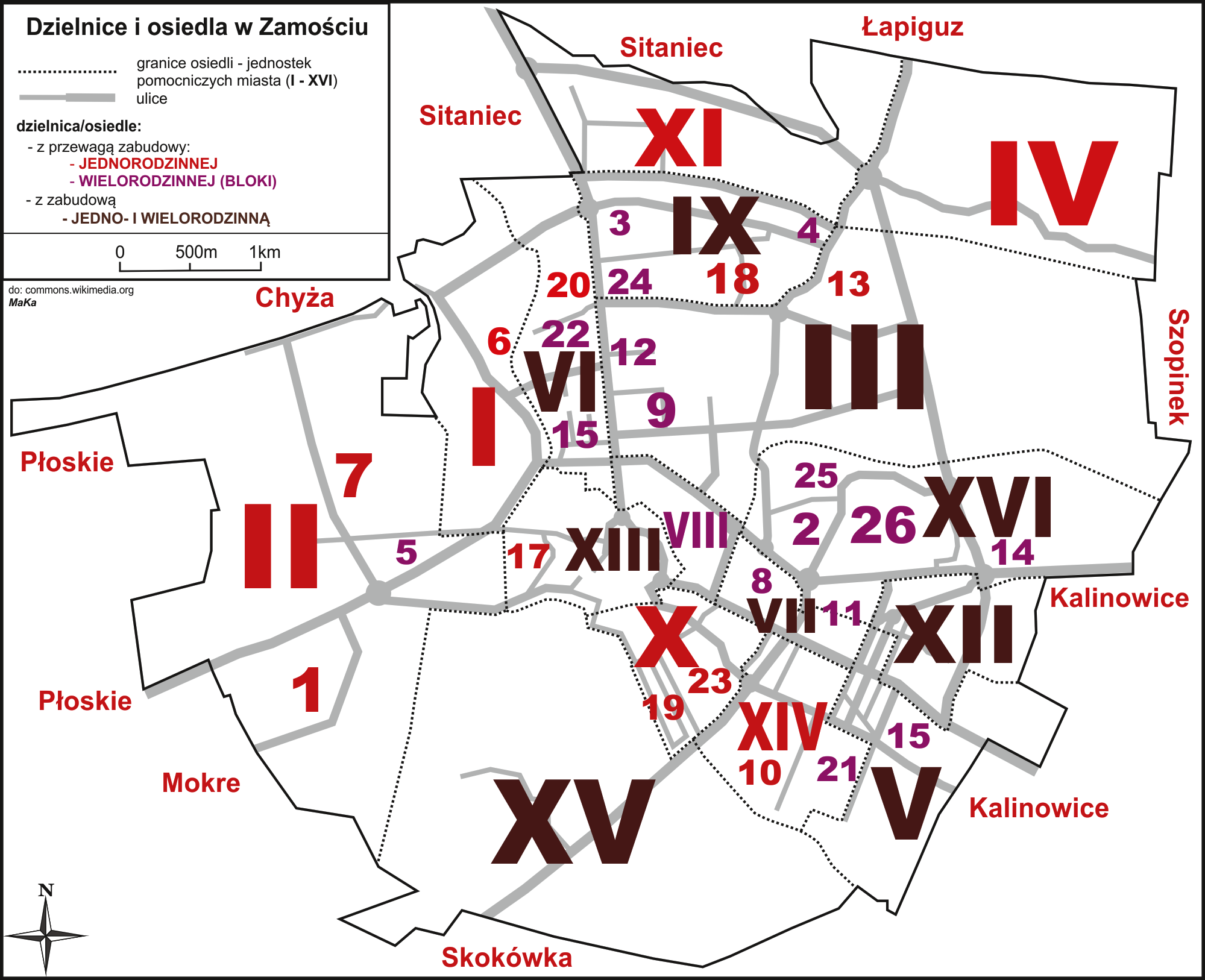 Plan of quarters (I-XVI) in Zamość with signed housing estates (1-26)